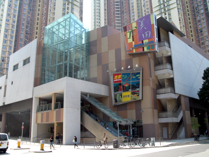 HK Mei Tin ShoppingCentre